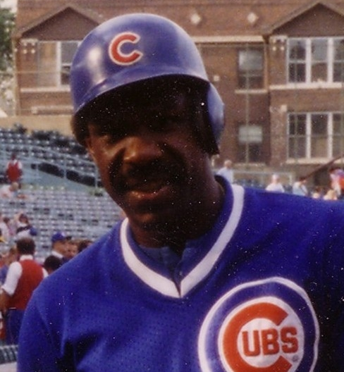 Sacoo, family photo taken in Aug. 23, 1988 at Wrigley Field in Chicago 01:50, 9 November 2007 . . Sacoo . . 834×1,570 (301 KB)